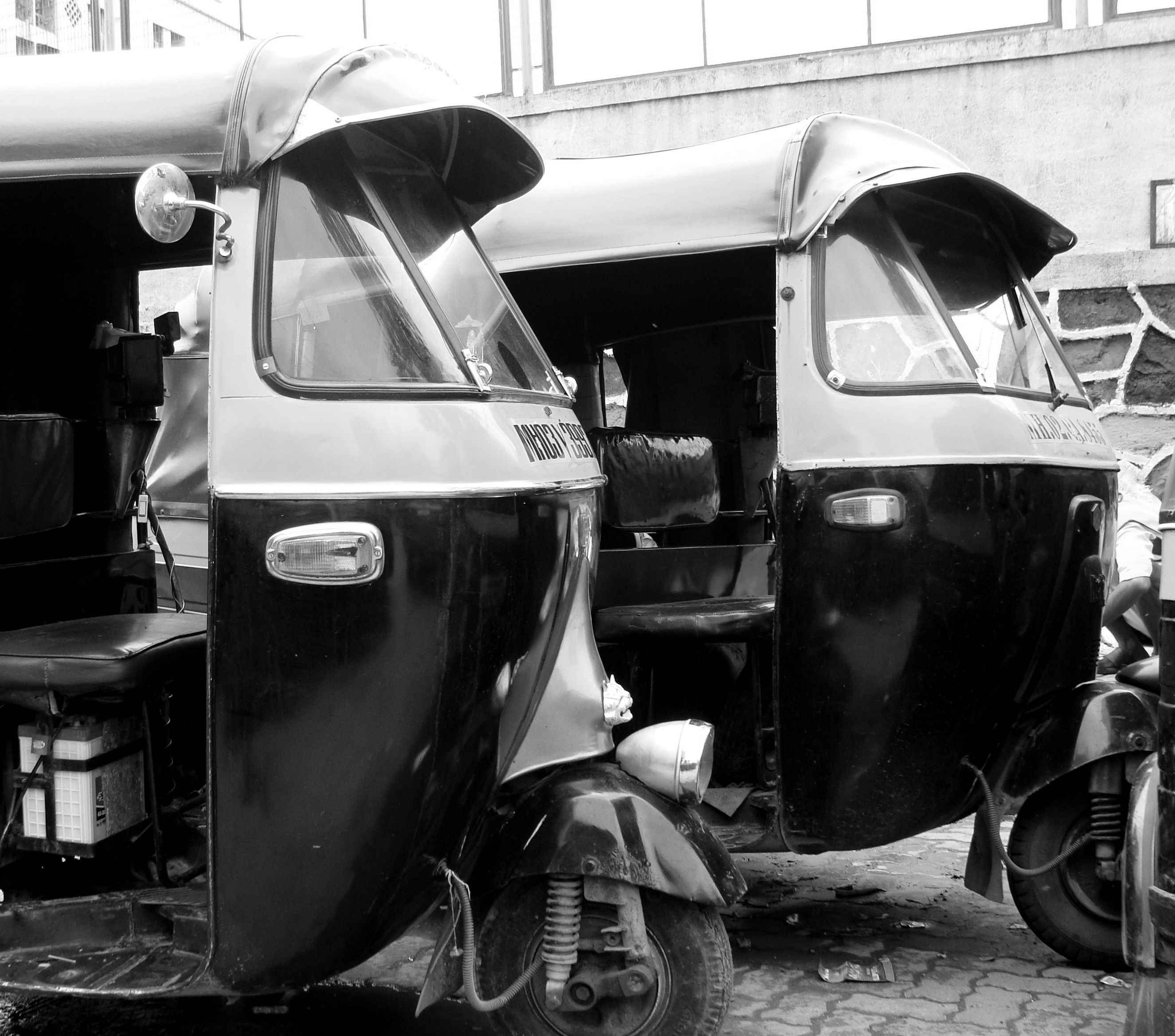 Auto rickshaw's parked on the streets of Mumbai